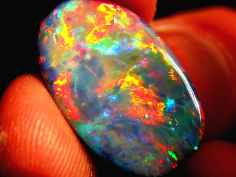 Cut and polished black opal from Lightning Ridge, Australia, 16.42 carats.